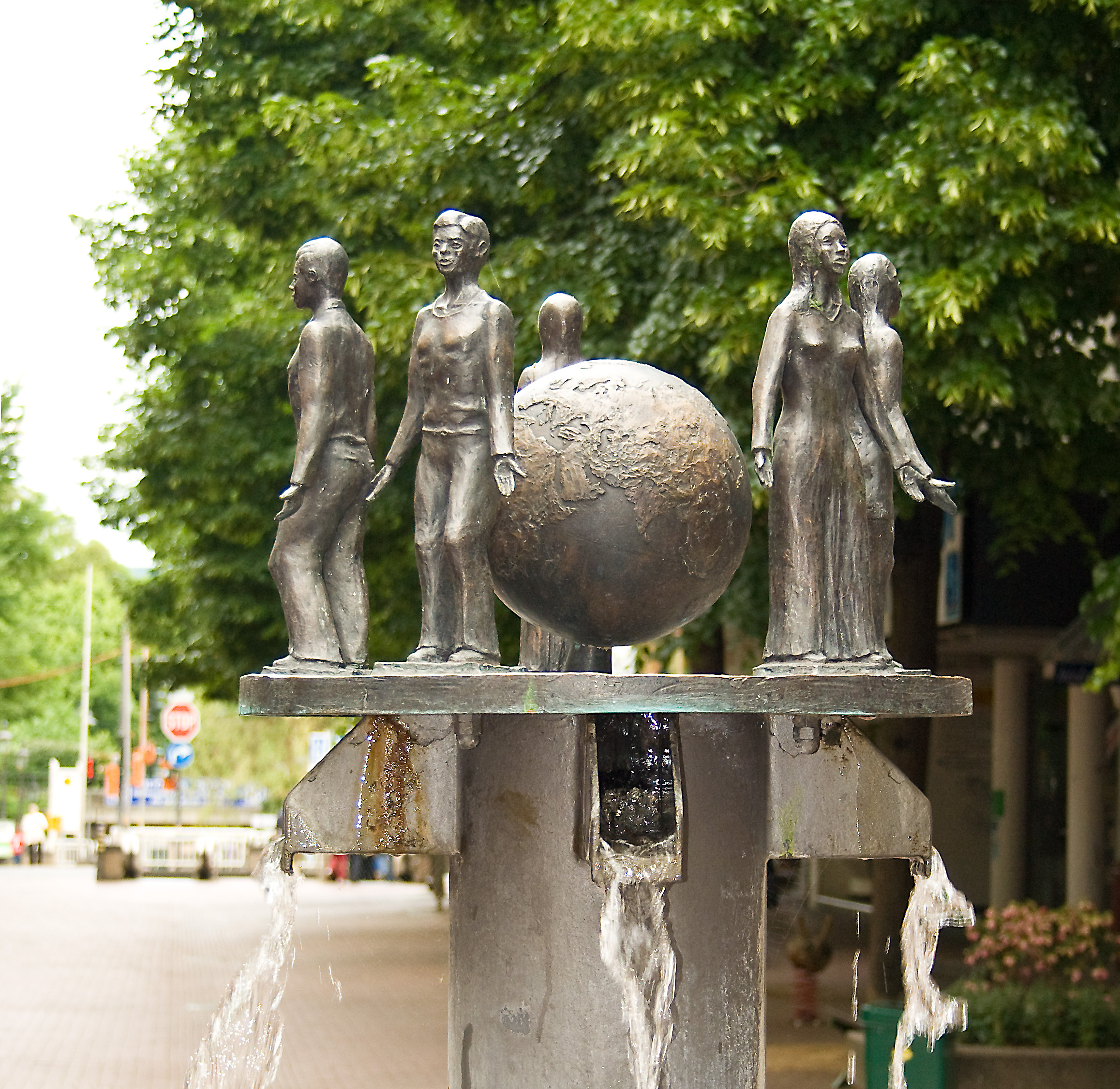 Sculpture at the fountain "Jugend als Bewahrer der Welt", Bonn-Bad Godesberg, Germany. The sculpture is there solidly installed in the pedestrian zone since 2002. The artist who created the work is Heinz Feuerborn.